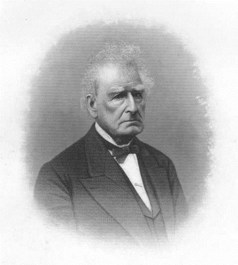 John Chaney (1790-1881), Ohio congressman.